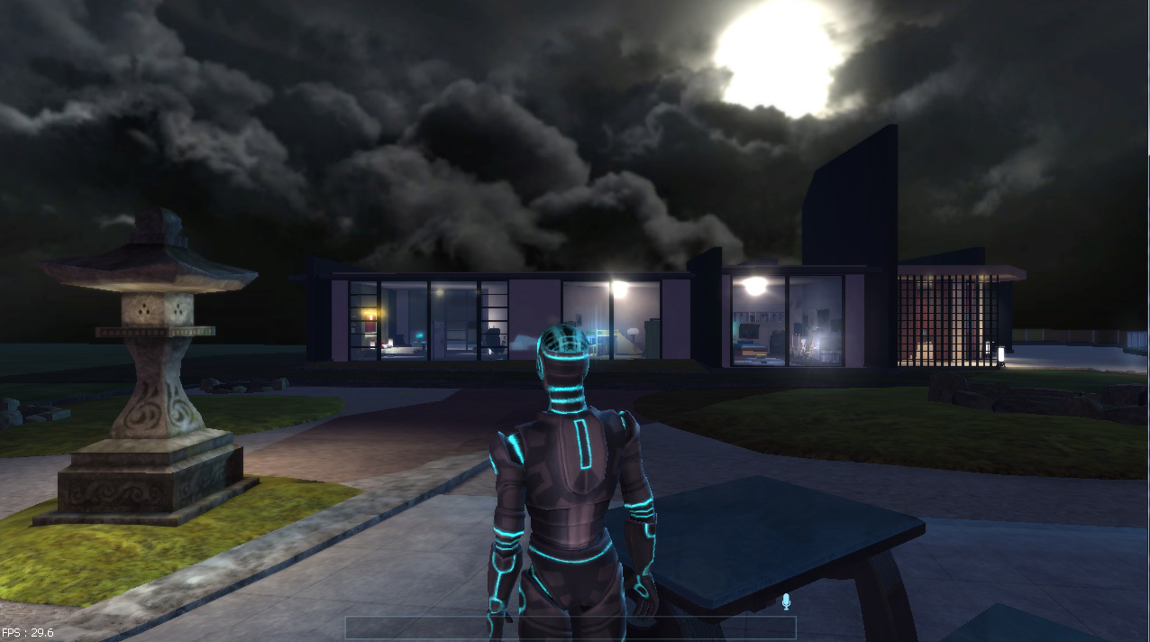 Intruder level - Jimmy - Exterior